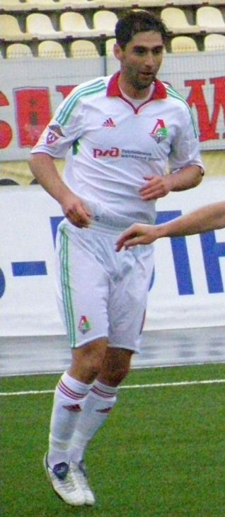 Davit Mujiri in action for FC Lokomotiv Moscow